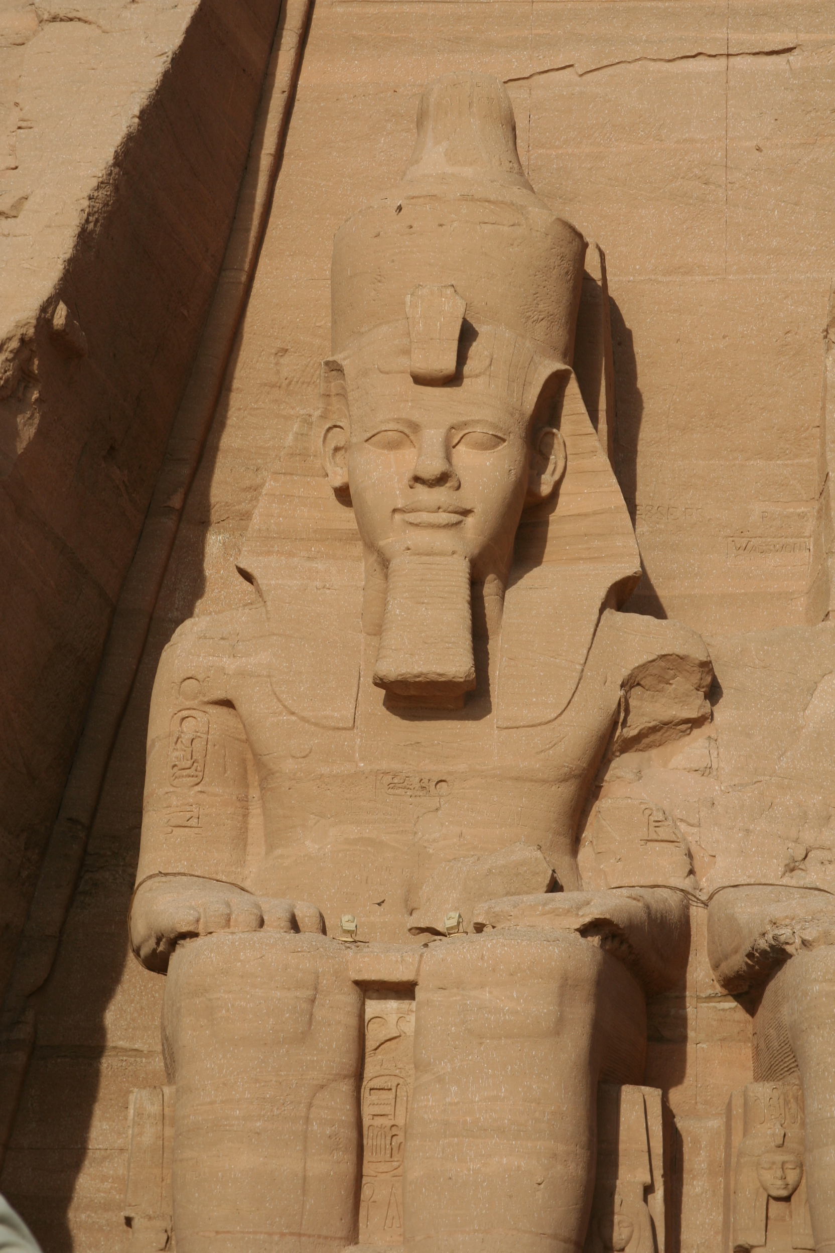 Detail Temple of Rameses II @ Abu Simbel saved from being lost beneath the River Nile by UNESCO